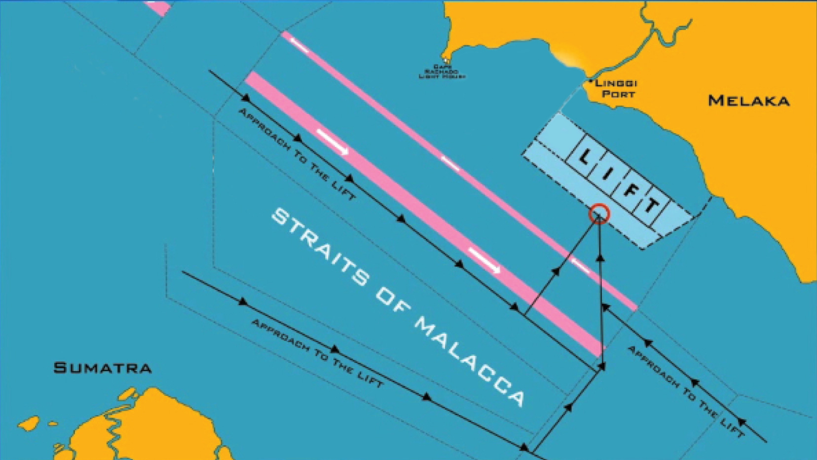 Linggi International Floating Transshipment HUB in chart. Accessible via the Super Highway